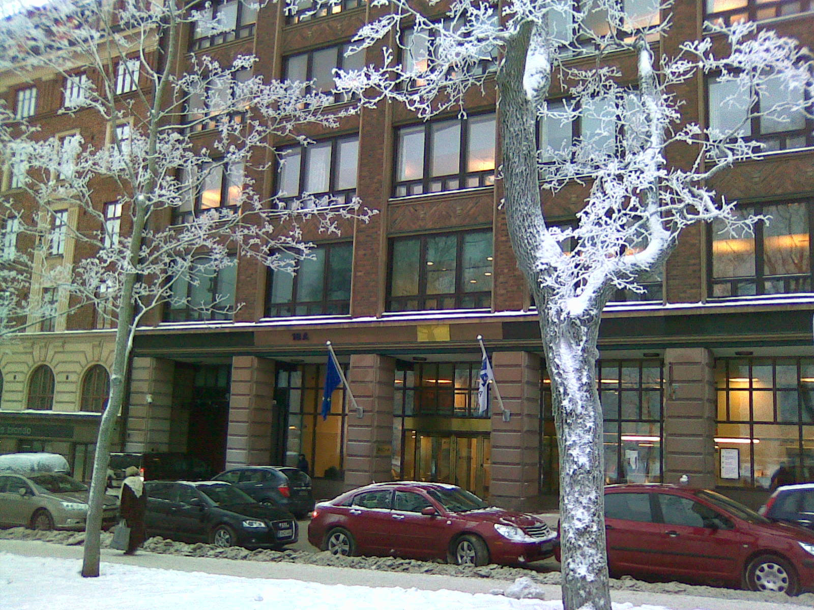 European Chemicals Agency headquarters in Annankatu, Helsinki.